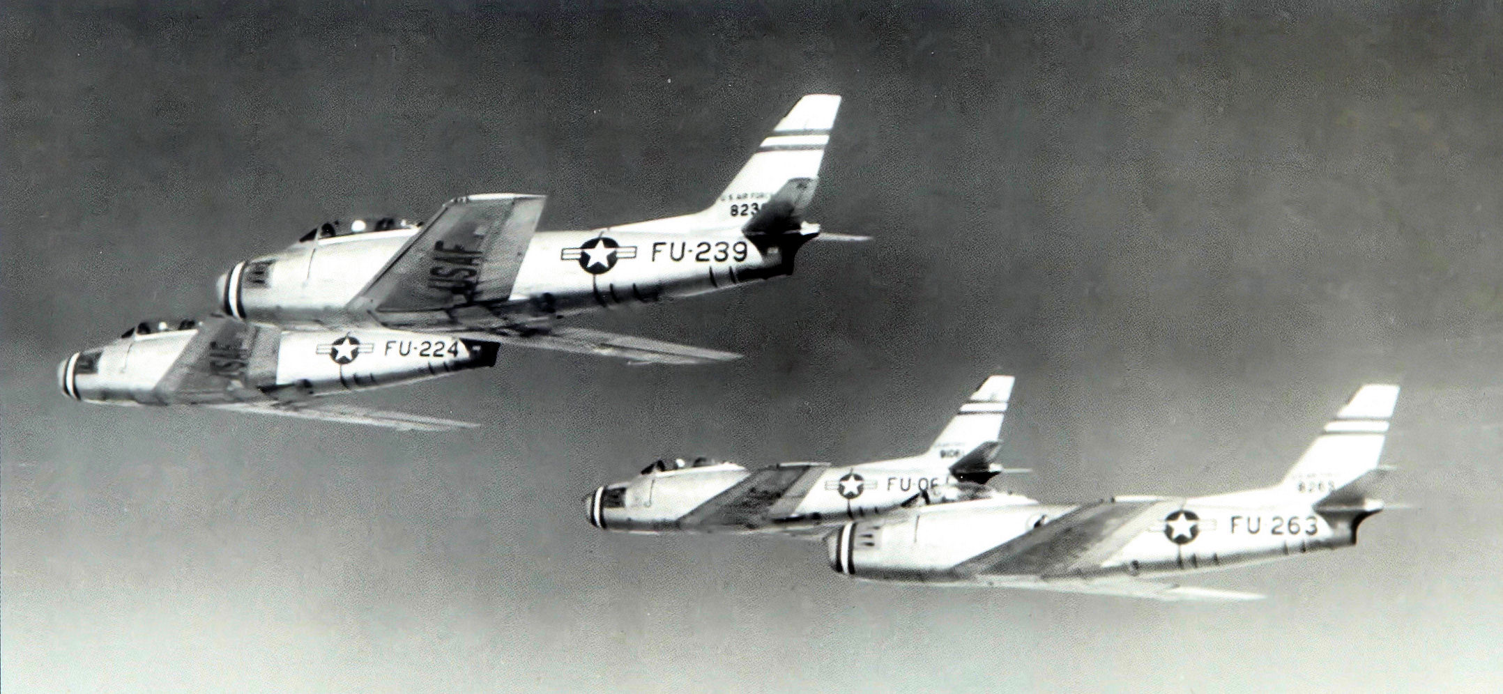 93d Fighter-Interceptor Squadron 4 F-86A overflight Kirtland AFB NM Western Air Defense Force, 34th Air Division, 1951 Identified Aircraft: North American F-86A-5-NA Sabre 48-239 North American F-86A-5-NA Sabre 48-224 North American F-86A-5-NA Sabre 48-263 North American F-86A-5-NA Sabre 49-1061